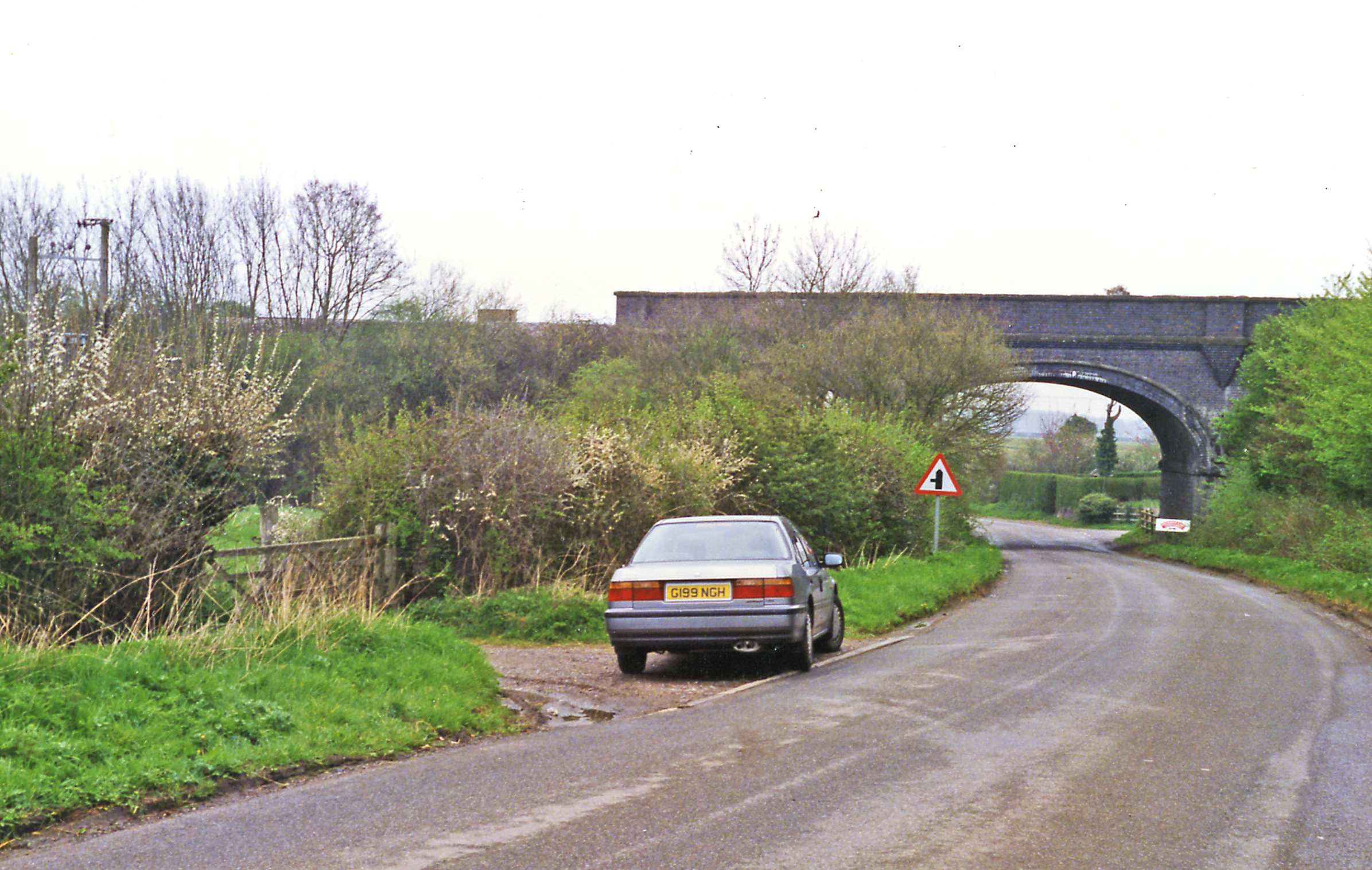 Site of Hullavington station, 1995. View northward on road to Norton, under bridge conveying the ex-GWR main line from London, Swindon etc. (to left) to (to right) South Wales via the Severn Tunnel, also Bristol via Filton Junction, the 'Badminton line'. The station had been up to the right, until closed to passengers 3/4/61,to goods 4/10/65. (My Honda Accord features).